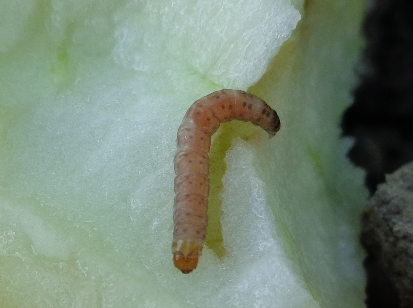 Cydia pomonella. Found in Bērzi village near Bauska city, Latvia